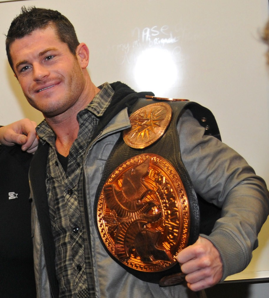 Evan Bourne, WWE Tag Team Champion, visits soldiers at Fort Bragg on December 9, 2011.